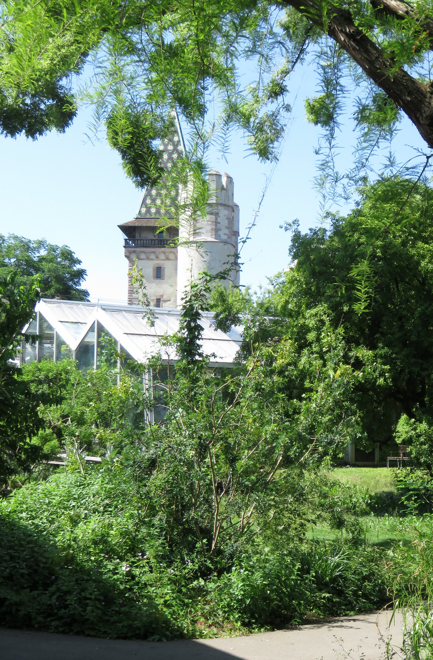 Basel botanical garden, with Spalentor in the background